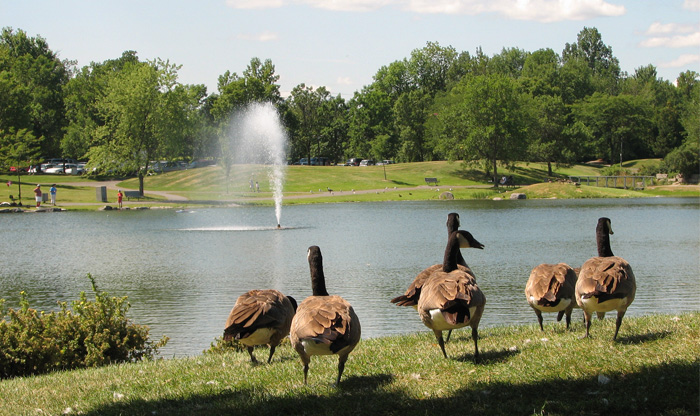 My own pictures Category:images of ducks